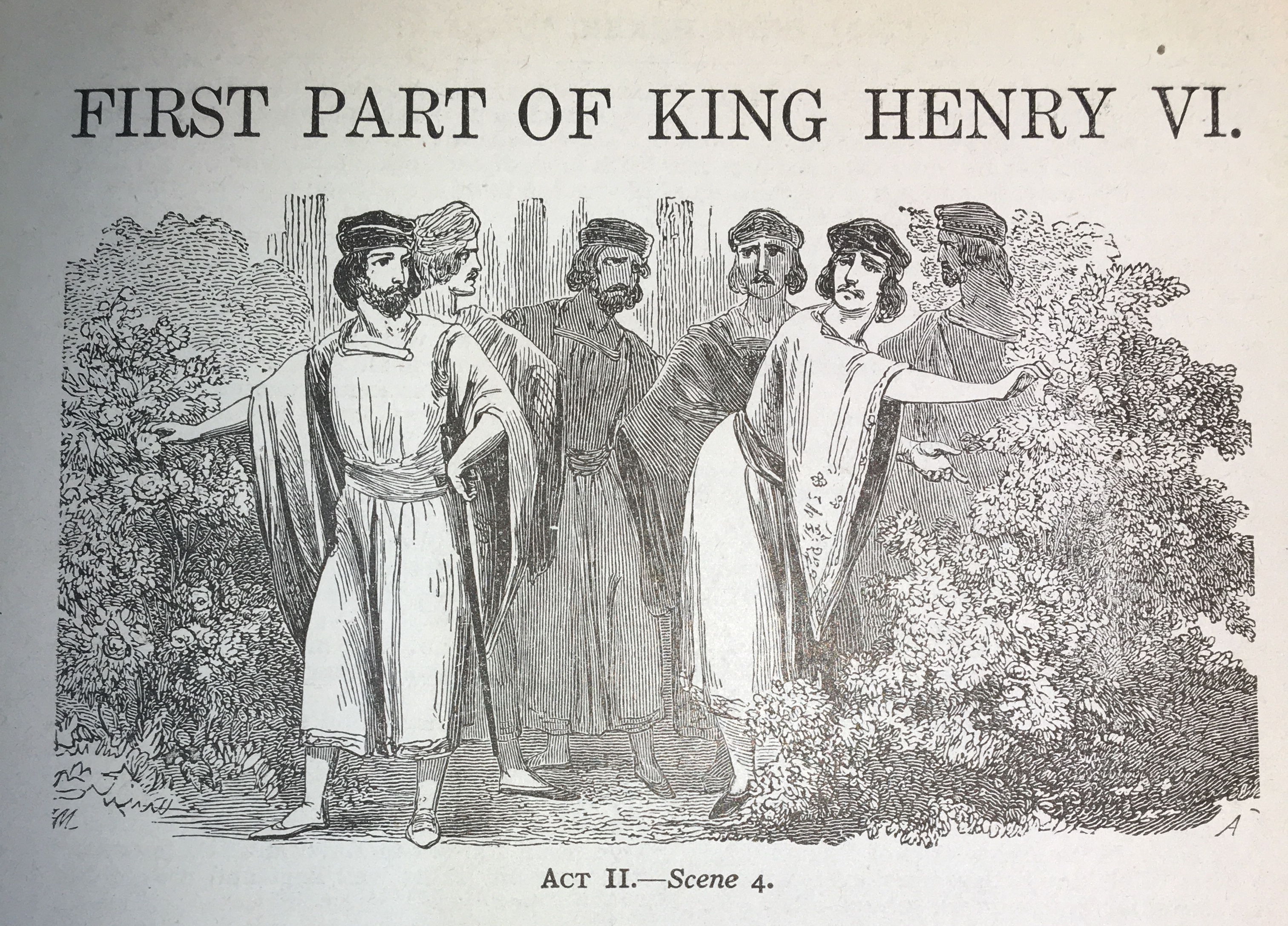 A lithograph image depicting a scene from Henry VI Part I